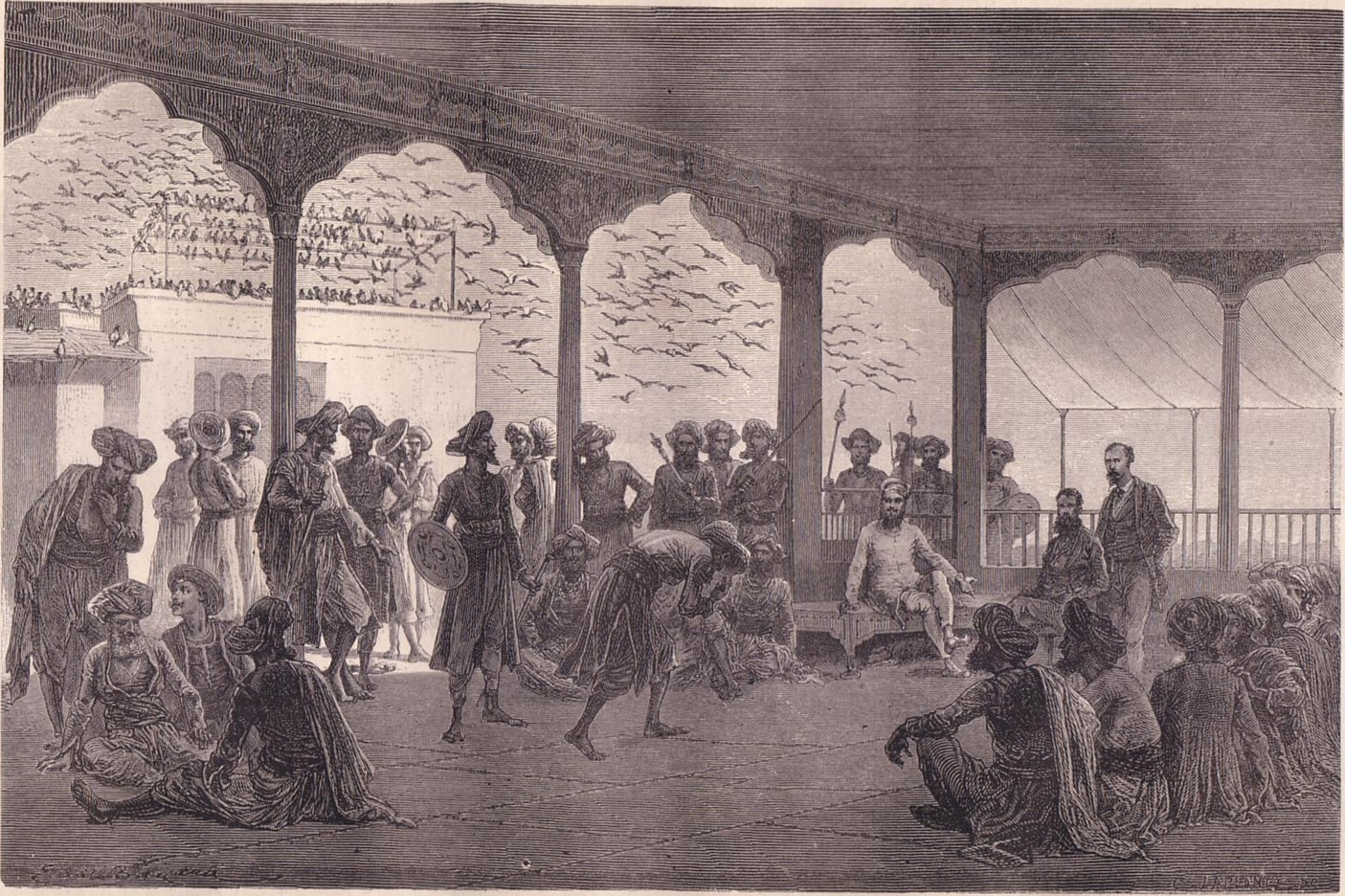 Engravings from a similar set in other publications, 1872-1878